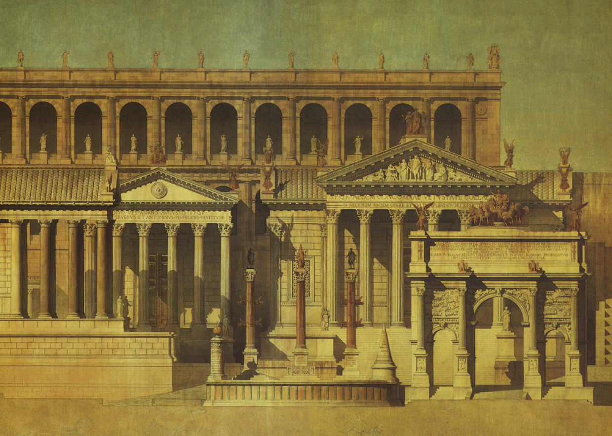 Constant Moyaux. The Tabularium and the monuments located at the foot of the Capitol in their restored state. India ink and watercolour, 1866. ENSBA. — Opening of the book The Search for Ancient Rome (pp. 6–7) by Claude Moatti, ‘New Horizons’ series, Thames & Hudson, 1993. Description on page 200. Scanned from the Russian edition.